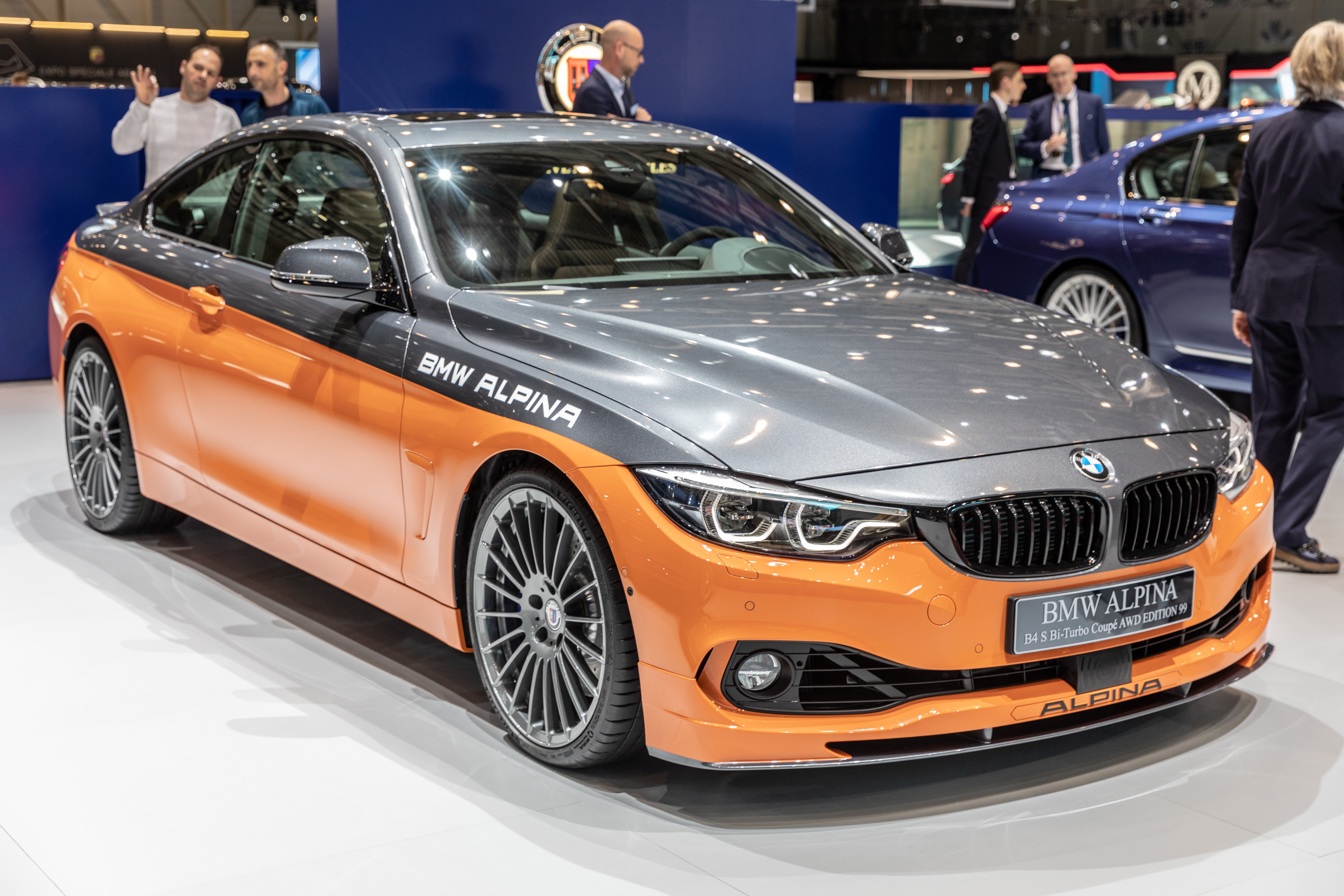 Geneva International Motor Show 2019, Le Grand-Saconnex